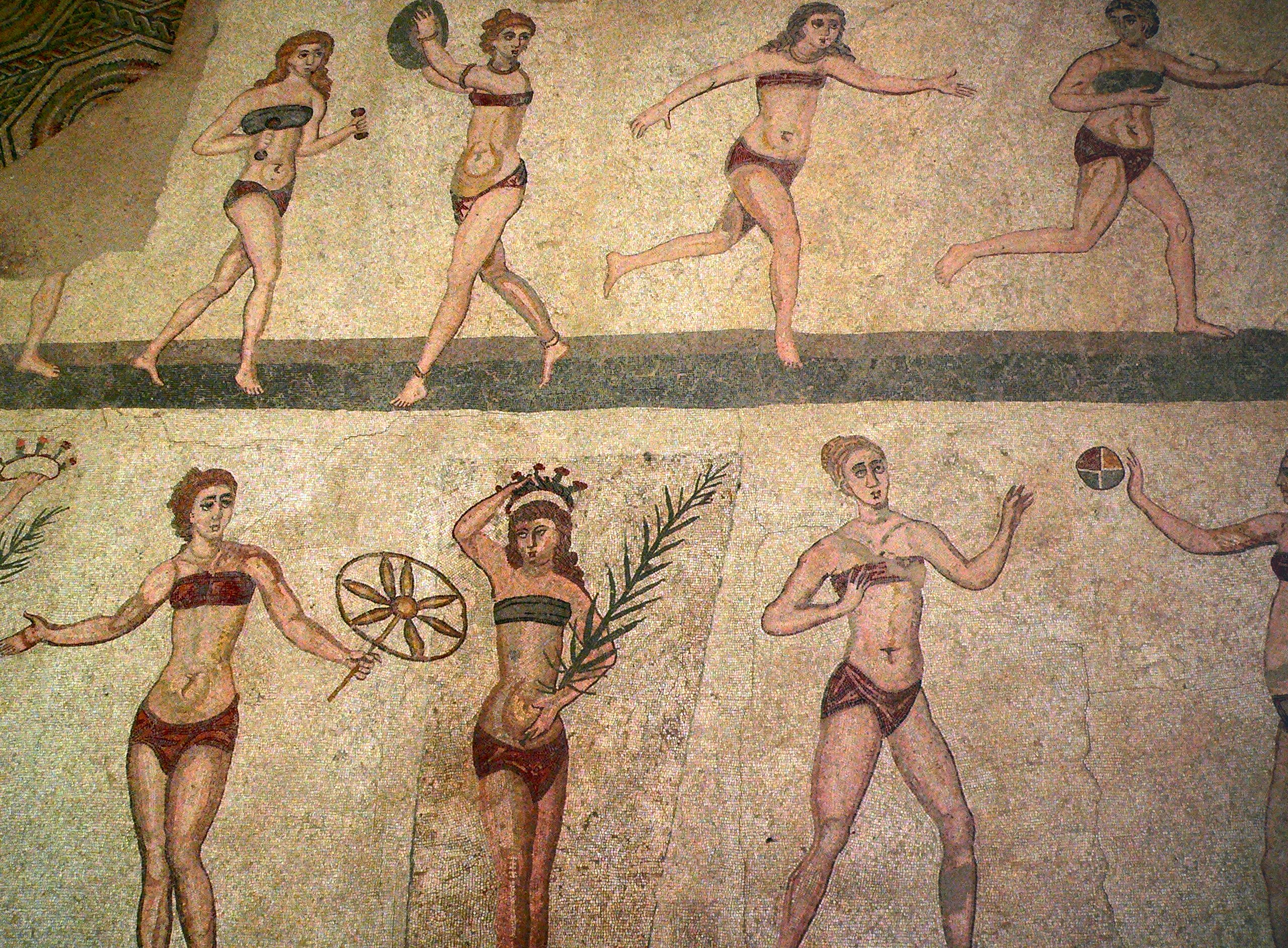 Famous "bikini girls" mosaic (found by archeological excavation of the ancient Roman villa near Piazza Armerina in Sicily), showing women exercising, running, or receiving the palm of victory and crown (for winning an athletic competition). Bikini Mosaic Villa Romana del Casale